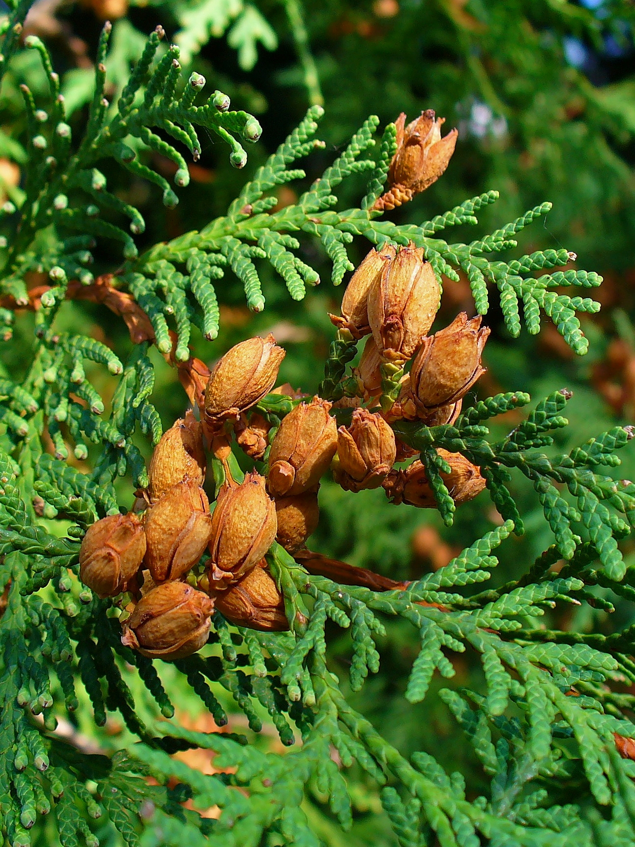 Thuja occidentalis, Cupressaceae, Eastern Arborvitae, Northern Whitecedar, cones. Karlsruhe, Germany.